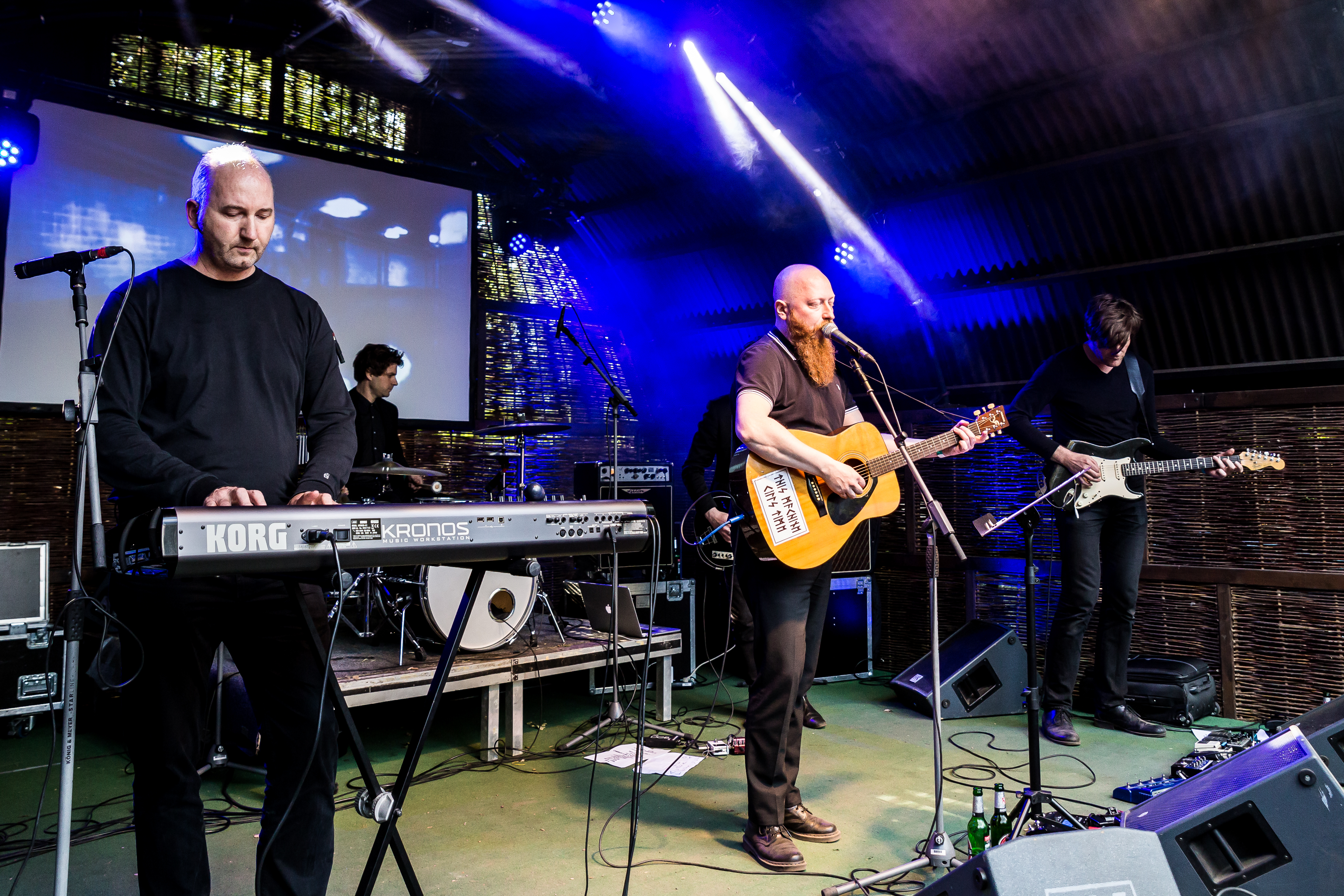 The Danish neofolk project :Of the Wand & the Moon: at the Nocturnal Culture Night 12 2017 in Deutzen/Germany.